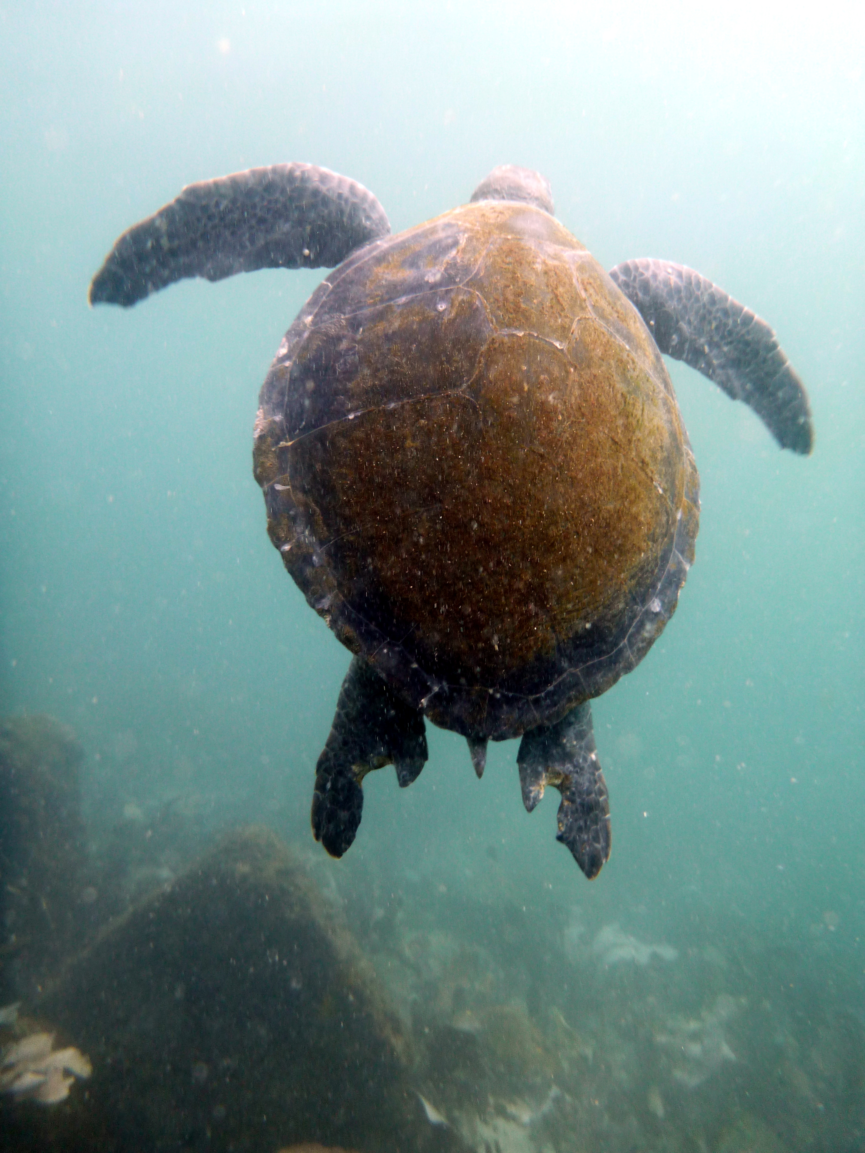 Chelonia mydas (sea turtle) in Arraial do Cabo